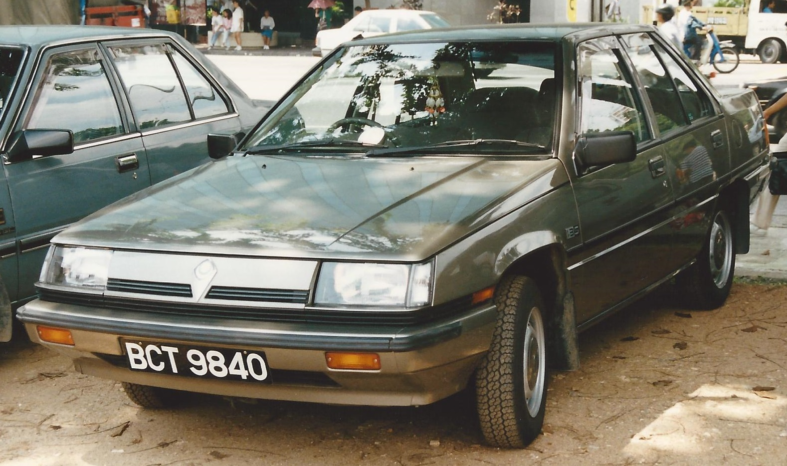 1985 Proton Saga in Kuala Lumpur. Photo taken circa 1990.